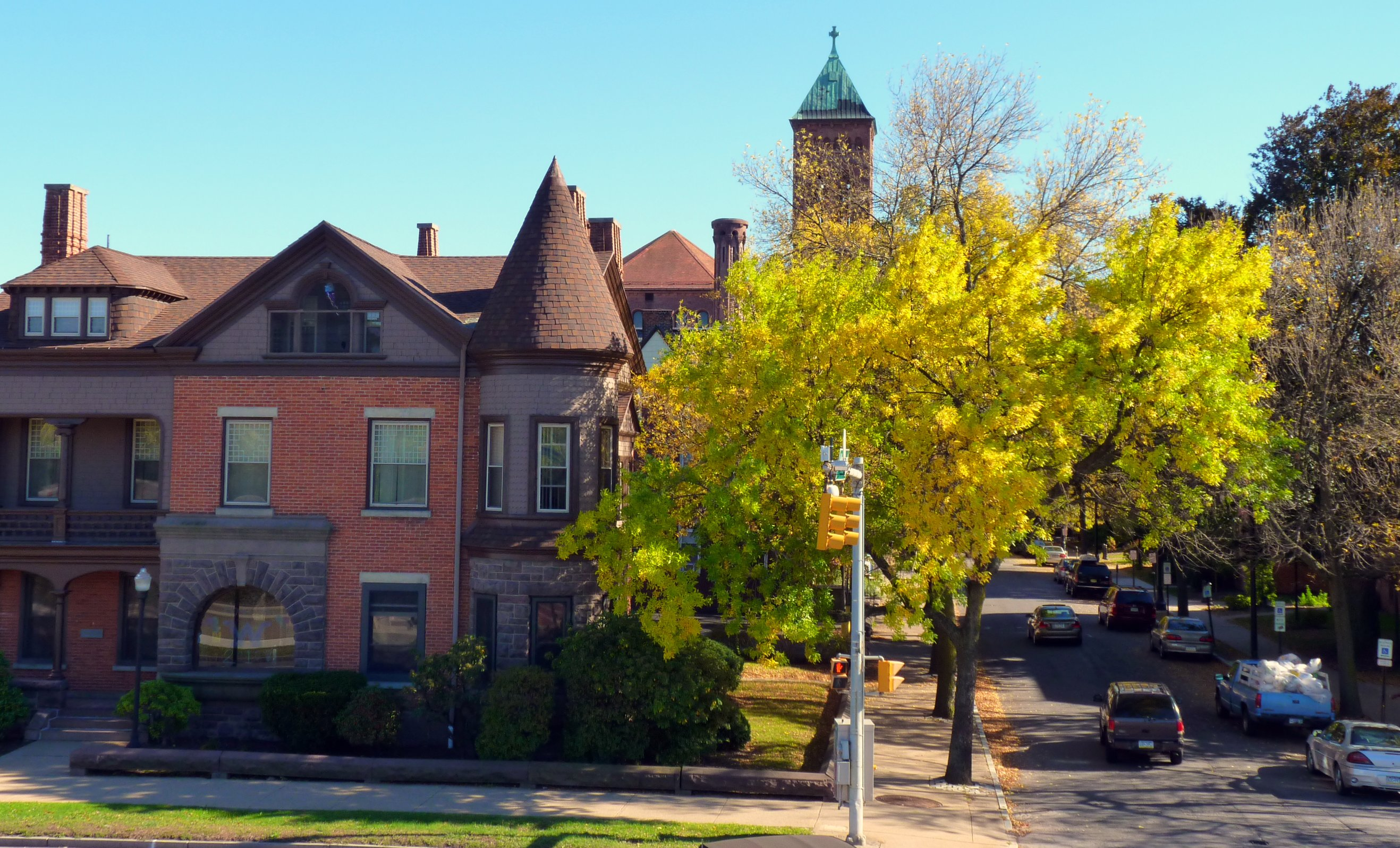 Historic District, Wilkes-Barre, Pennsylvania, United States.